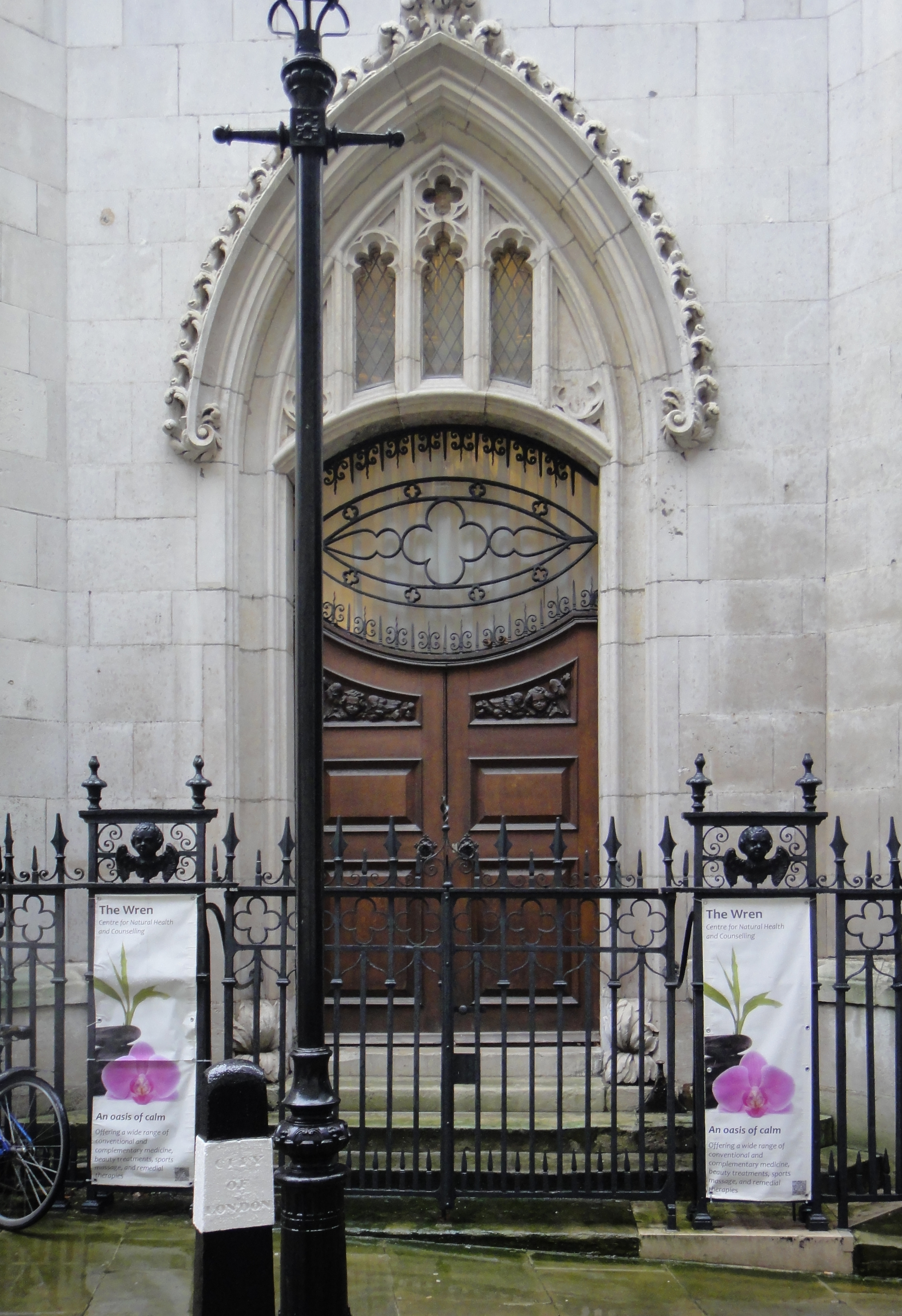 St Dunstan in the East